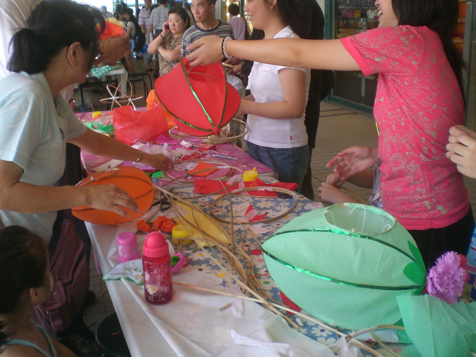 有機農墟@中環, One of the booths zh-yue:紙紮藝術手工藝 - 中秋節燈籠製作